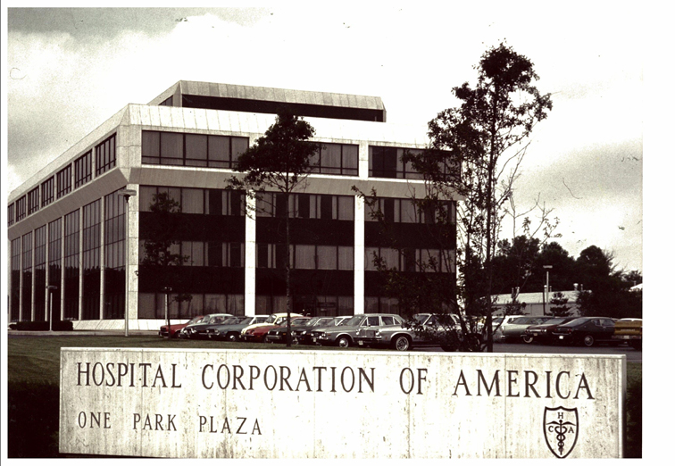 A picture of the HCA corporate office as it looked in 1972 just after opening.